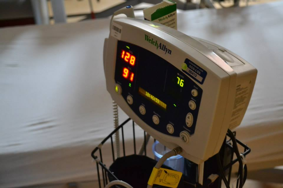 advanced Sphygmomanometer